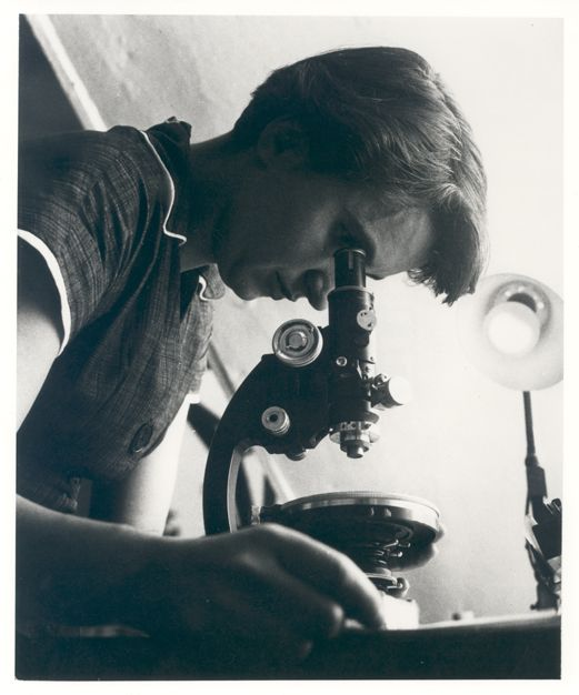 Rosalind Franklin with microscope in 1955.